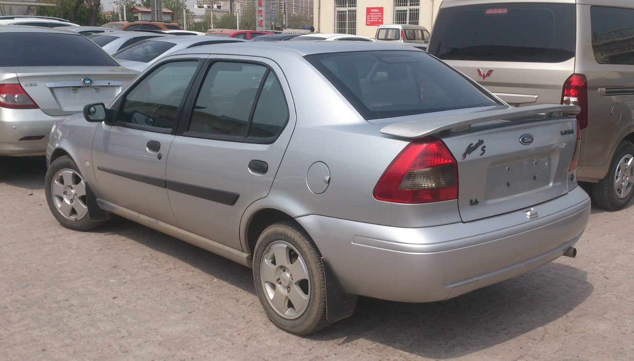 Ford Fiesta IV sedan photographed in Tianjin, China.